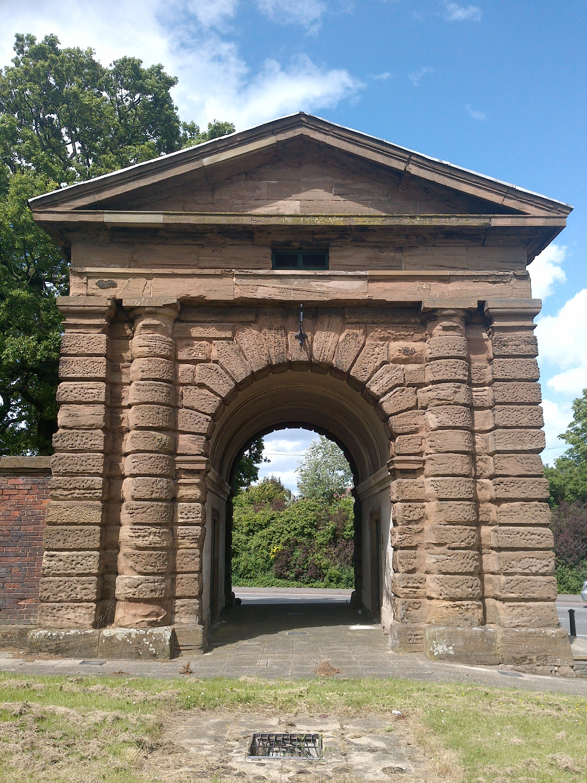 Former Gateway to Sandwell Hall